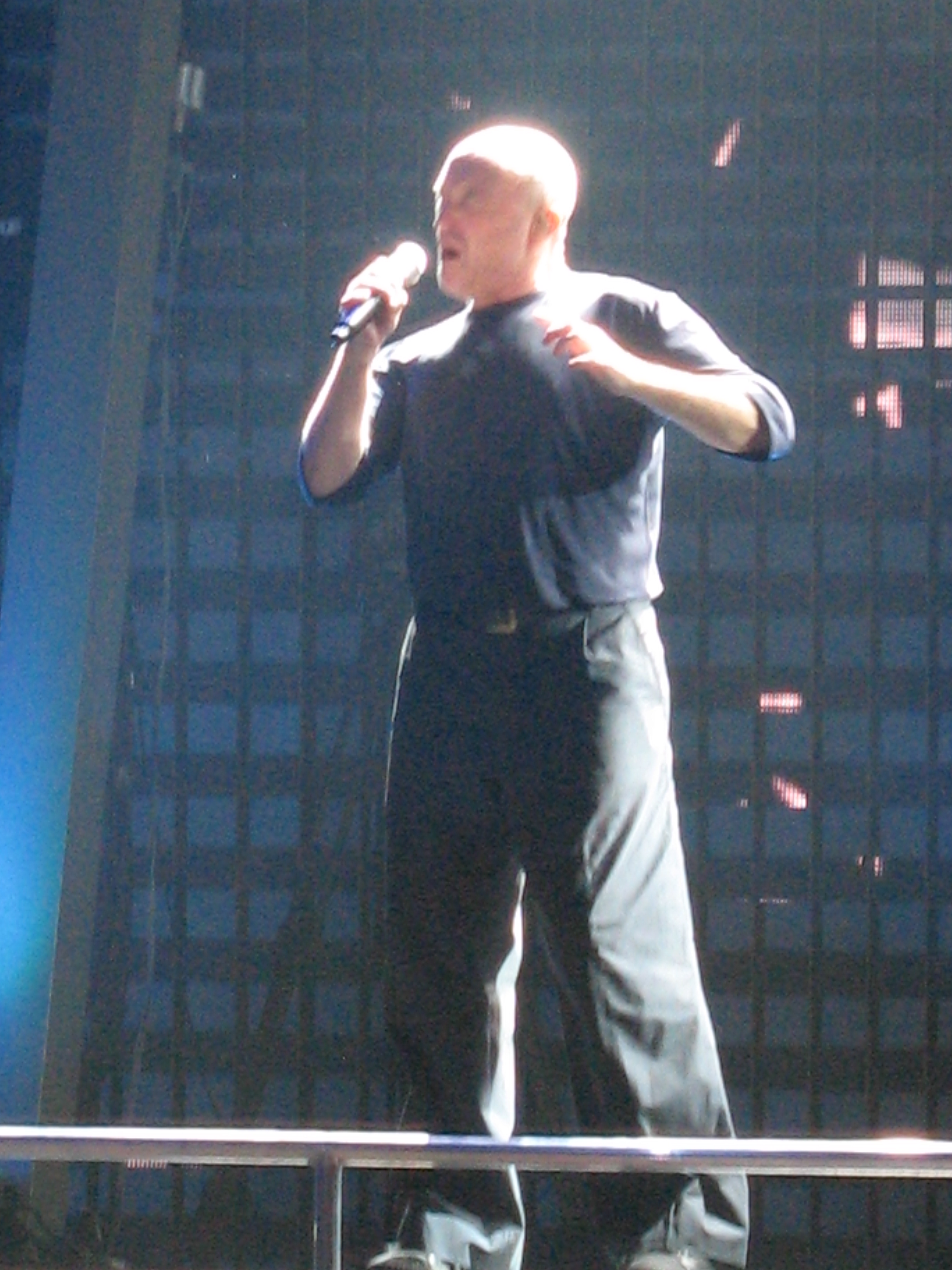 Phil Collins performing "In the Cage" with Genesis in concert at the Verizon Center, Washington, D.C., USA.